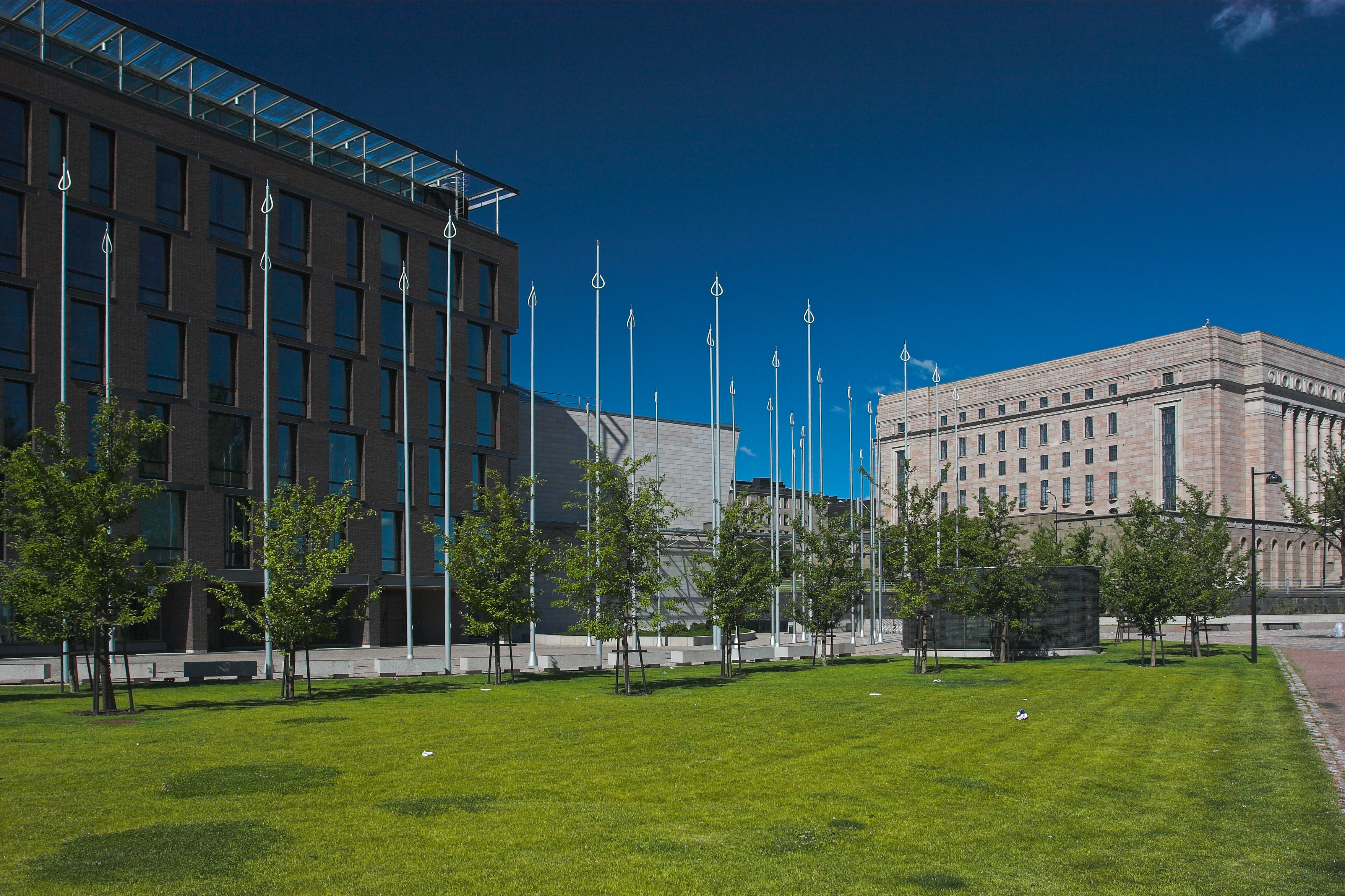 View from Finnish Parliament's office block to Parliament house (On right).